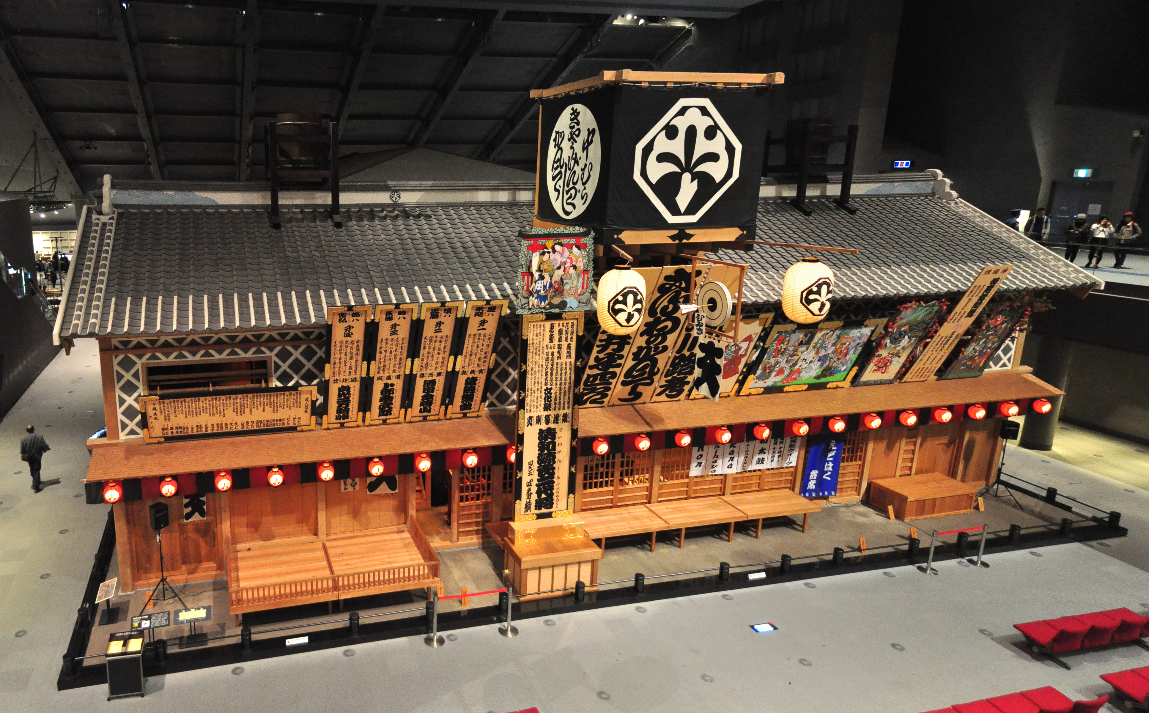 Edo-Tokyo Museum, Tokyo, Japan.